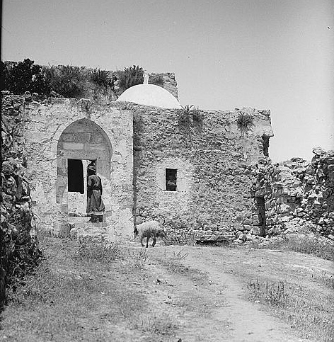 Sharafat, East Jerusalem, Palestine (cropped picture)